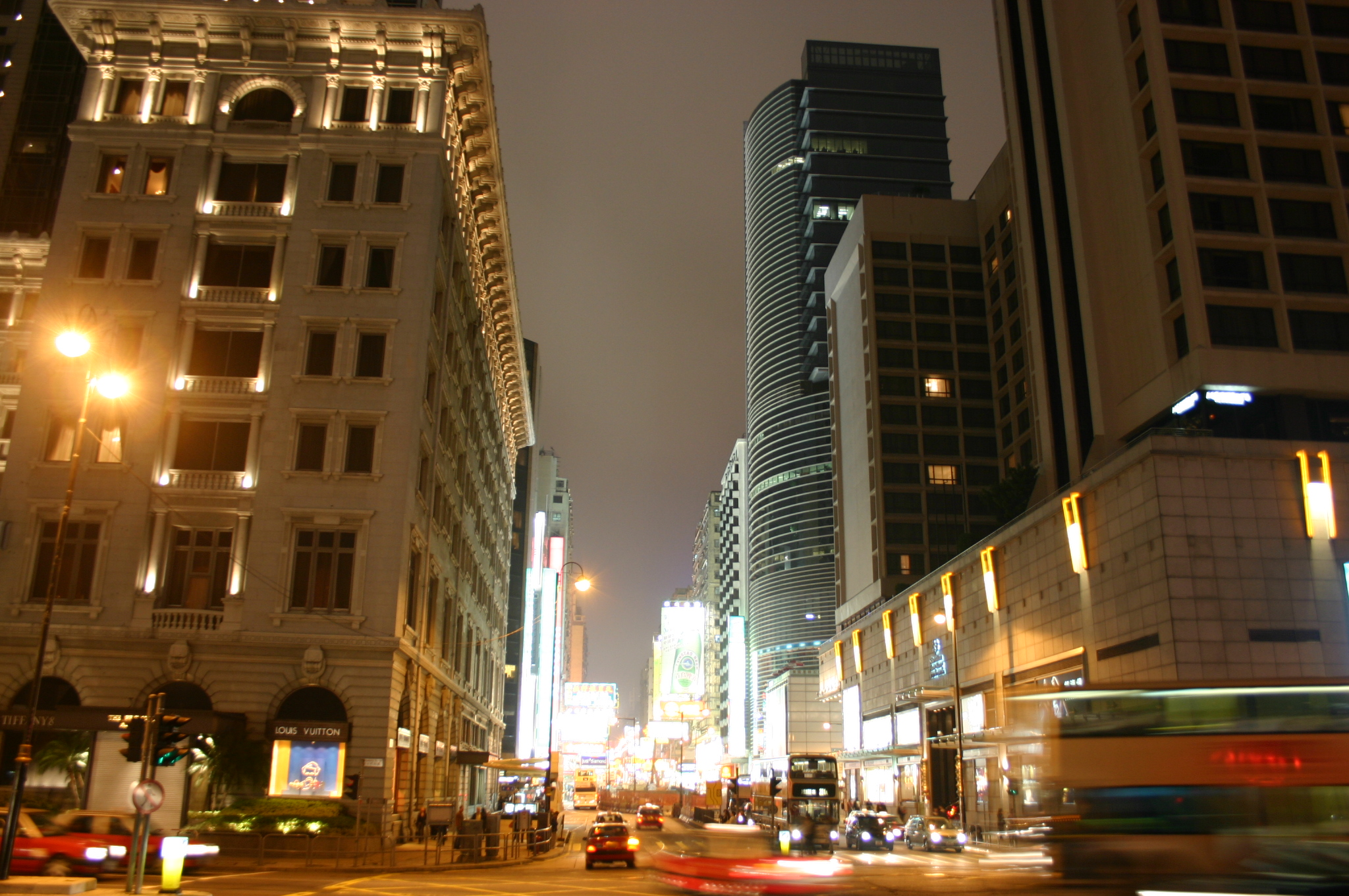 Nathan Road at Night, as seen from Salisbury Road. The building to the left is the Peninsula Hotel.